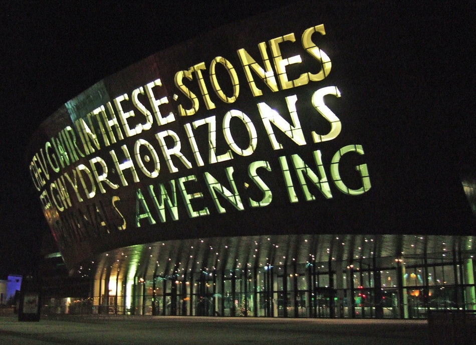 Wales Millennium Centre, Cardiff, Wales